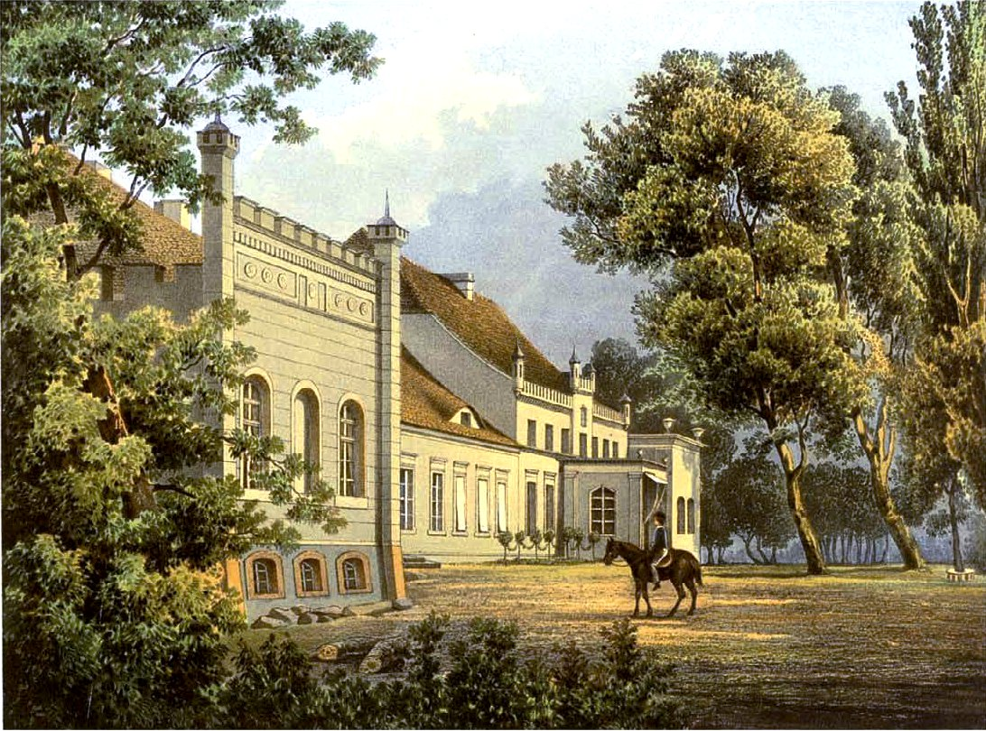 Palace in Żegocino